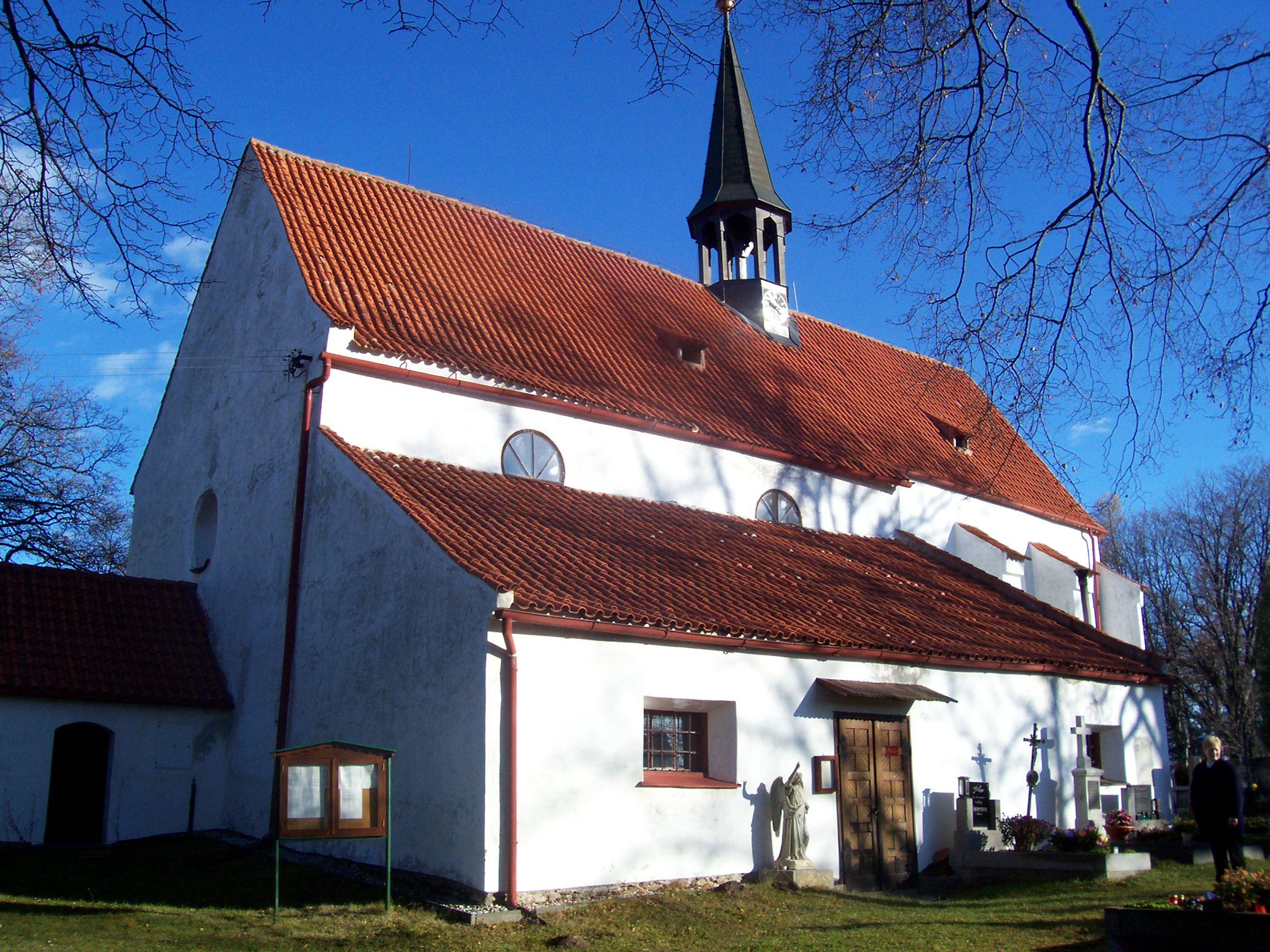 Church in Dobrš village, Strakonice district, the Czech republic